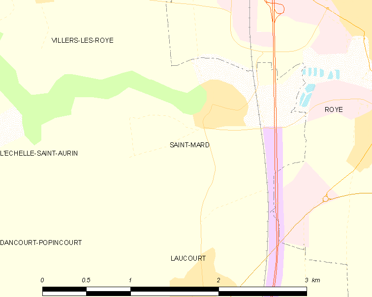 Map of French municipality Saint-Mard